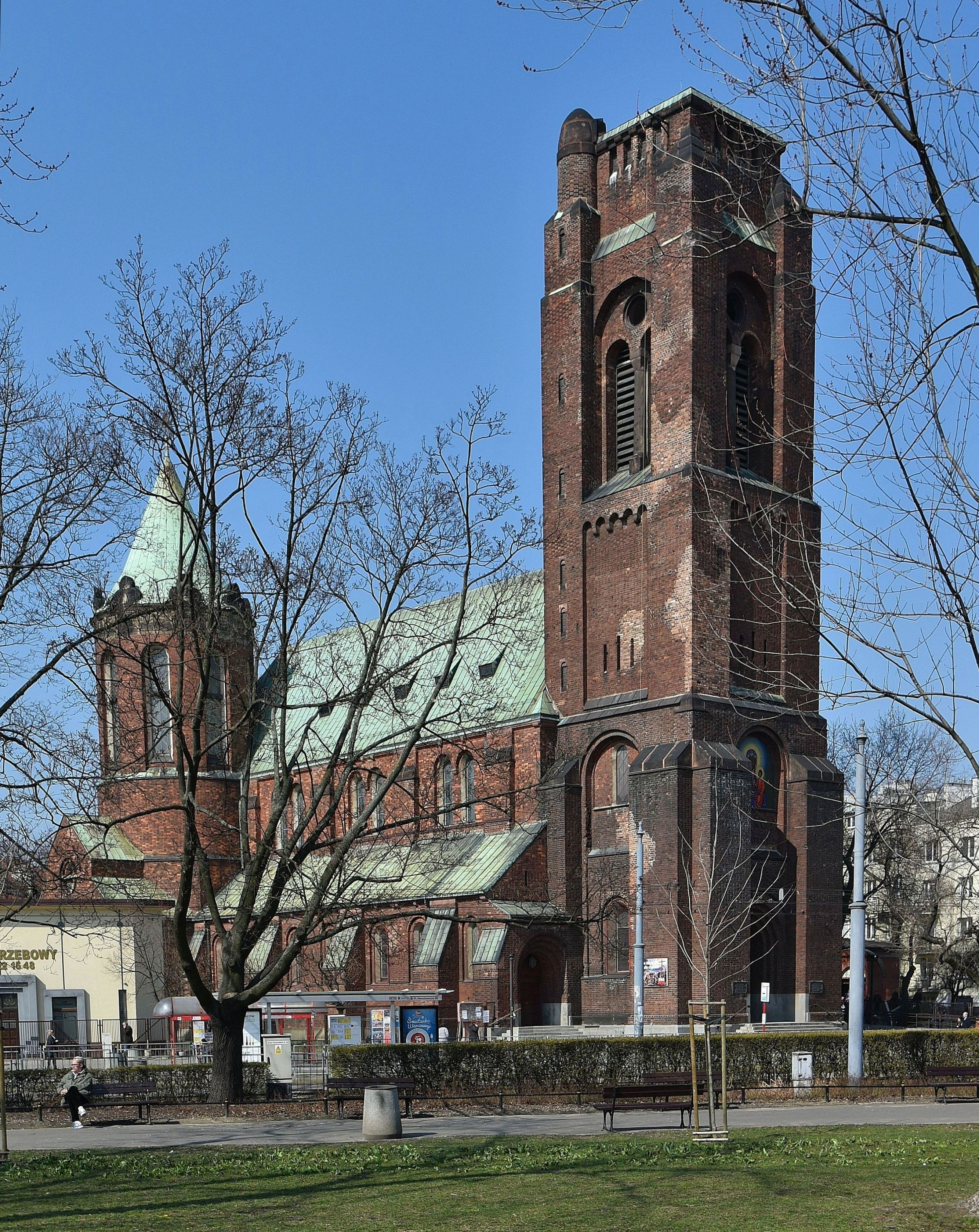 Church of the Immaculate Conception of the Blessed Virgin Mary in Warsaw